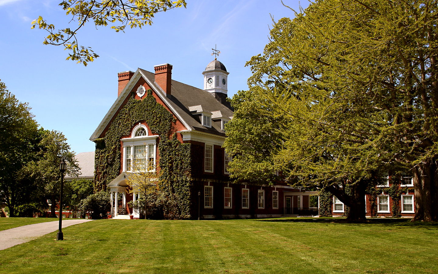 Photo of School Building at Pomfret School, Pomfret CT, USA